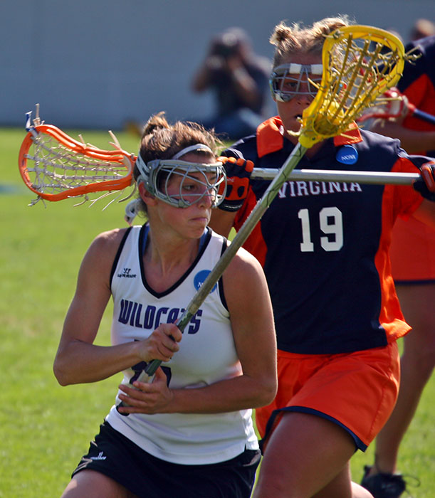 2005 NCAA Women's Lacrosse Championship in Annapolis, MD: Virginia Cavaliers and Northwestern University WildcatsAly Josephs with Amy Appelt behind